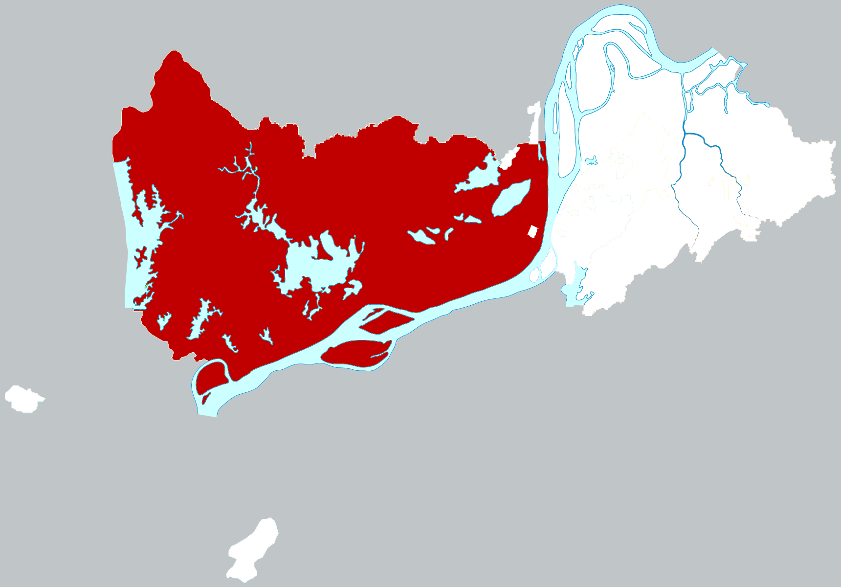 Location of Zongyang county in Tongling city, China